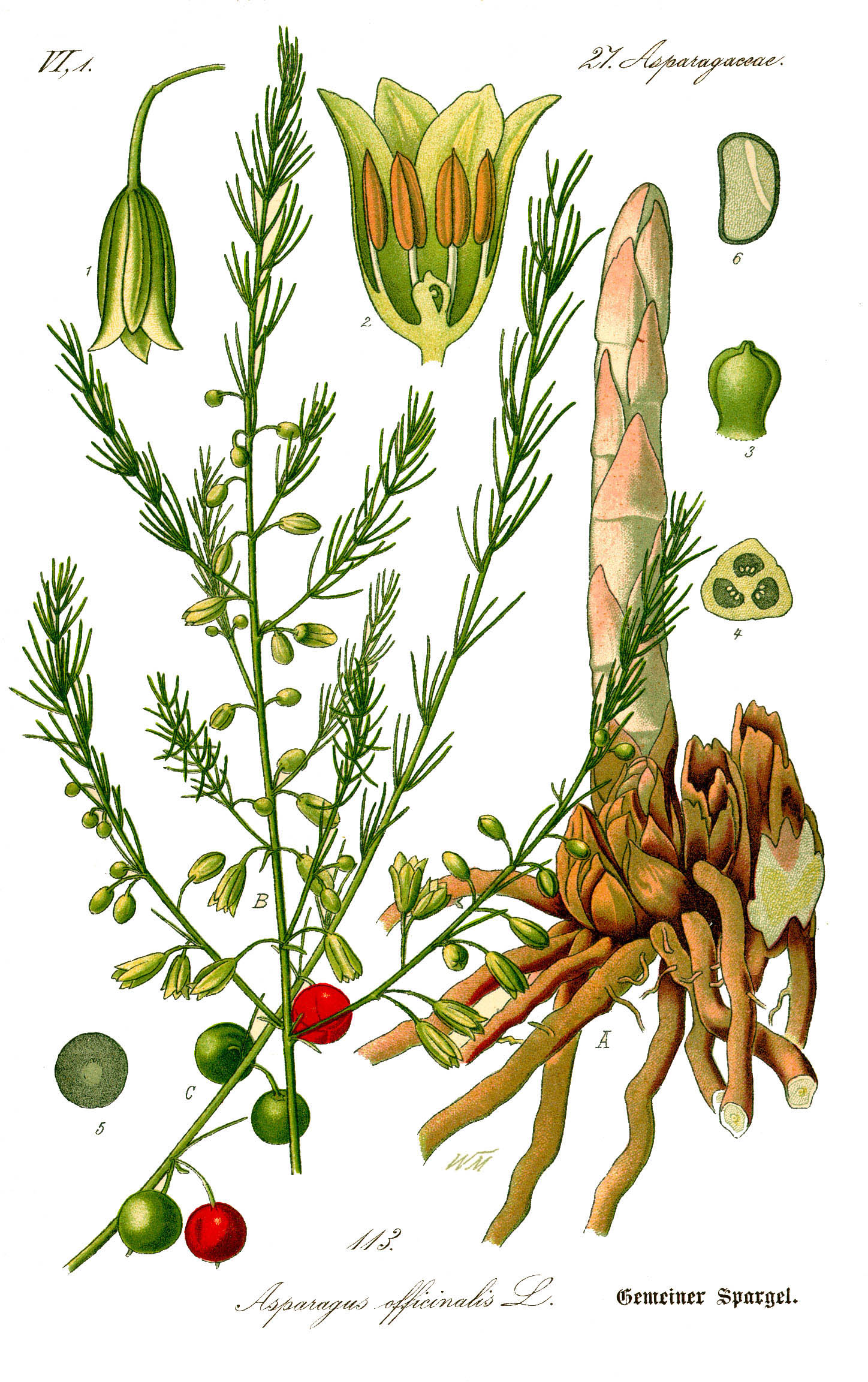 Name:Asparagus officinalis